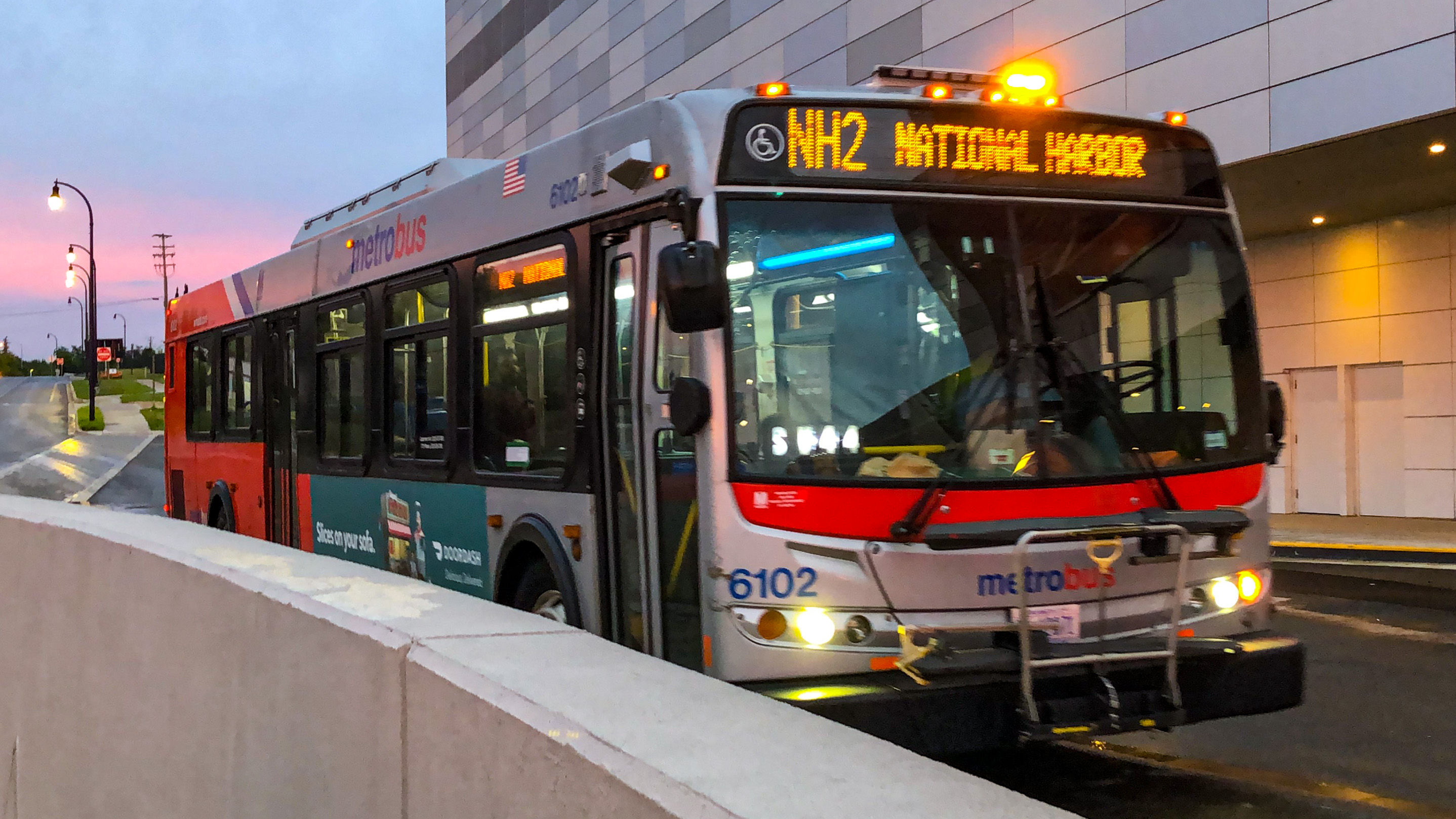 WMATA New Flyer D40LFR 6102 on Route NH2